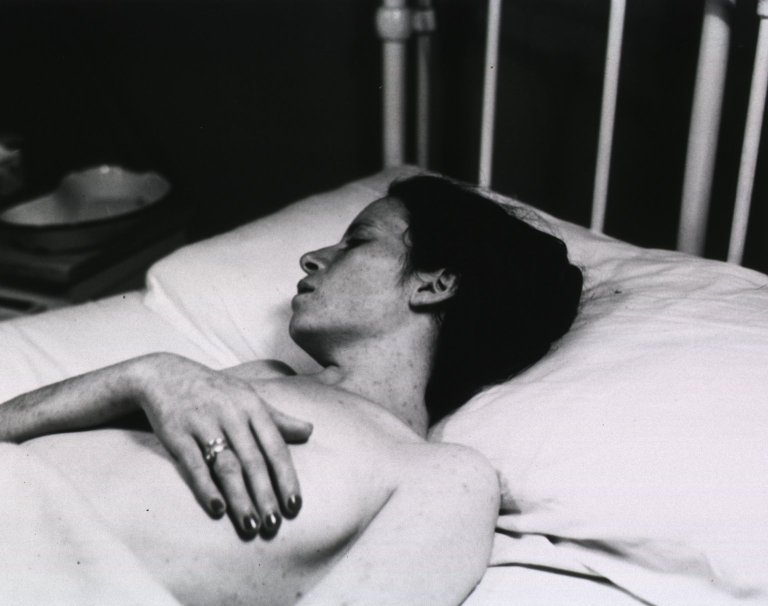 Typhus rash on the face and neck of a woman in the Fever Hospital, Abbassia, Egypt